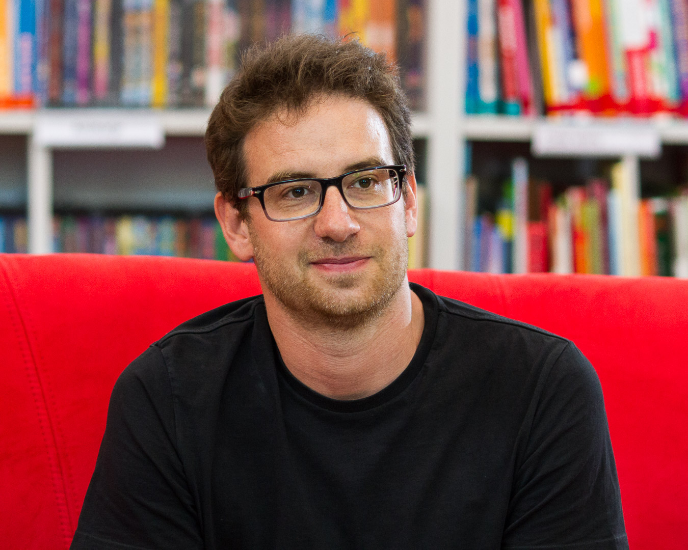 Mikołaj Łoziński on Authors’ Reading Month 2015, Wrocław, Poland